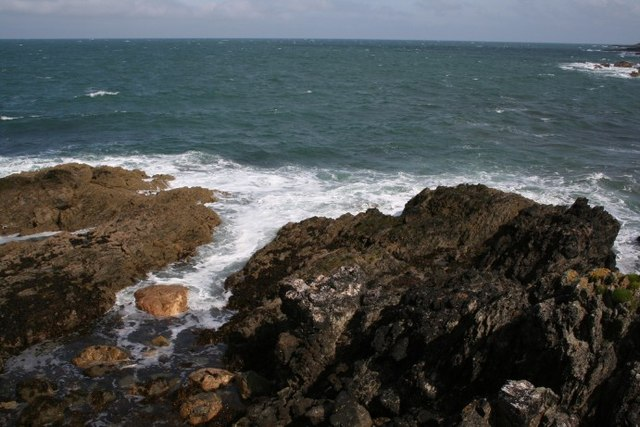 A splendid coast The coastal path on Llŷn just clips this square: these rocks, just to the west of the inlet Porth Ychain, are the only land.